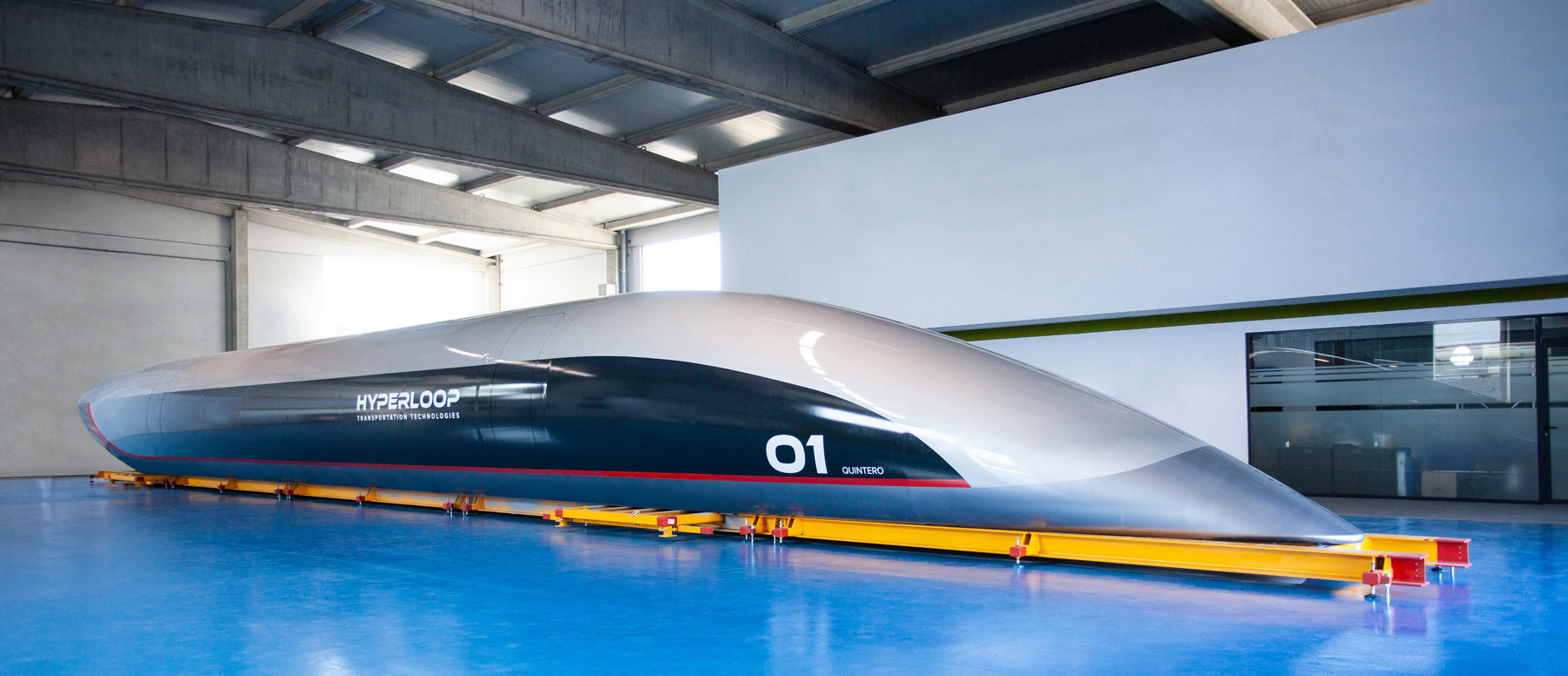 HTT Full Capsule